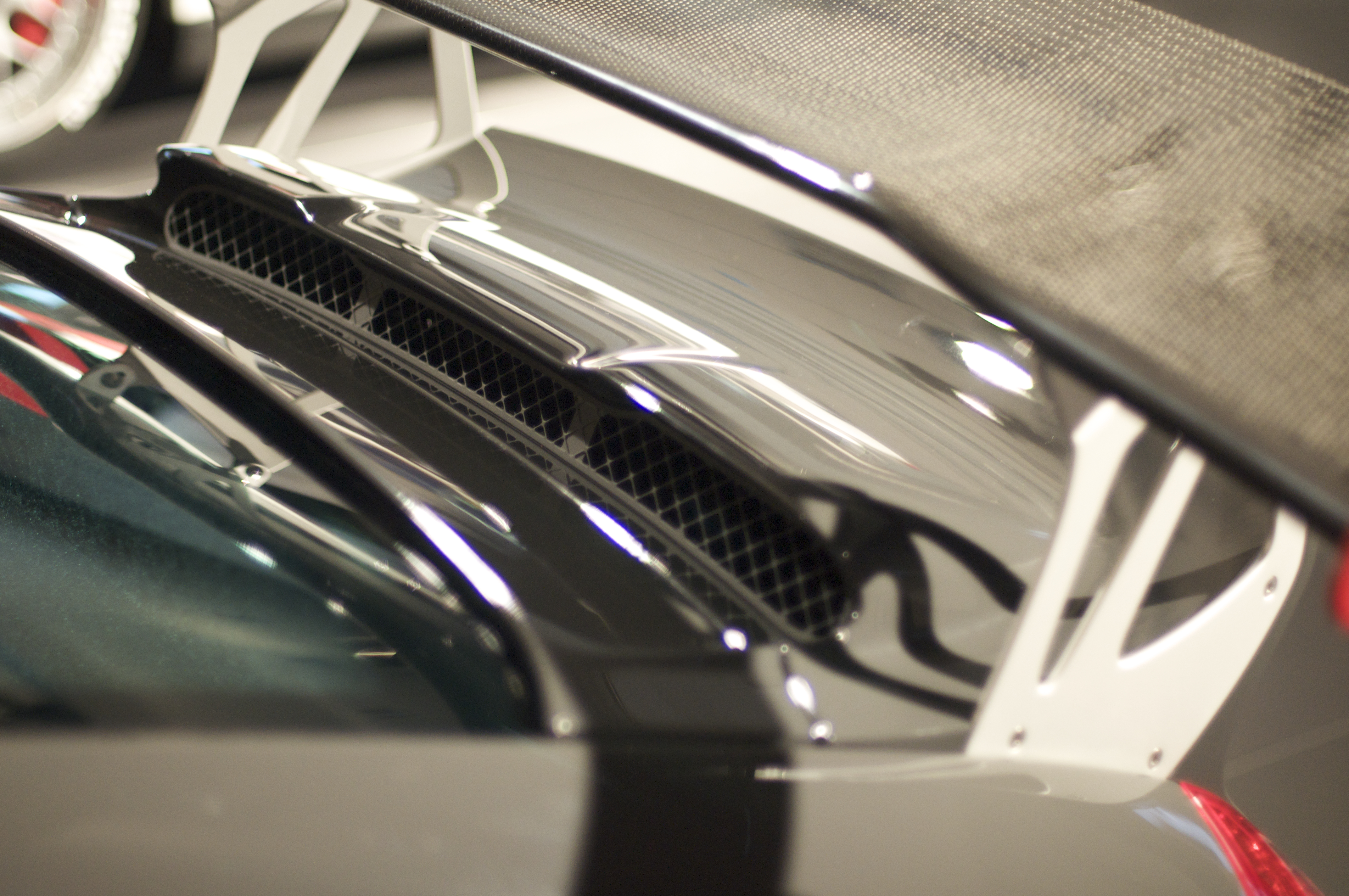 2009 Porsche 997 GT3 RS ram-air collector intakes.